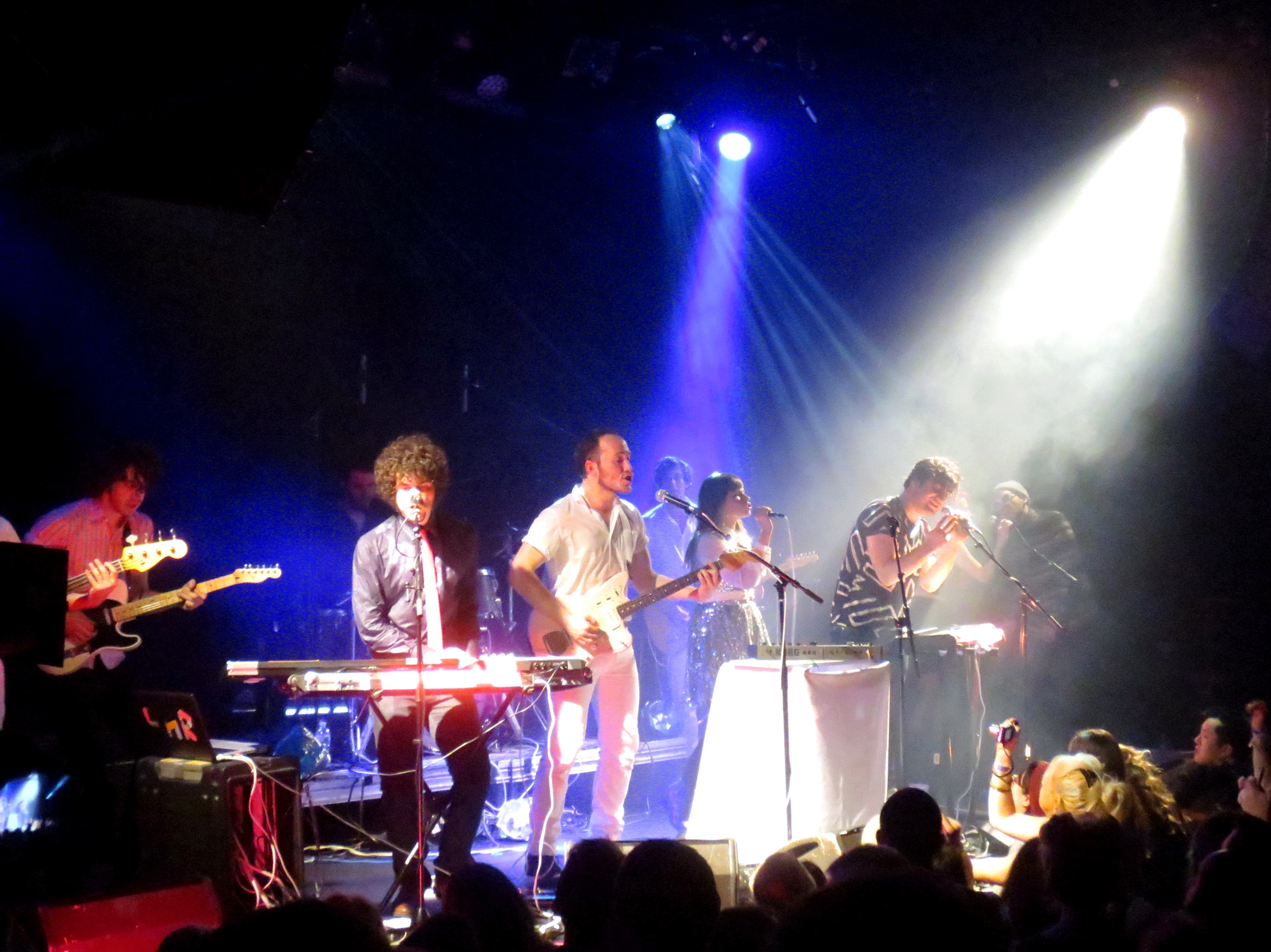 French Horn Rebellion (Robert Perlick-Molinari and David Perlick Molinari on left and right side) and Savoir Adore (with Paul Hammer and Deidre Muro in the middle) in Brooklyn 2013